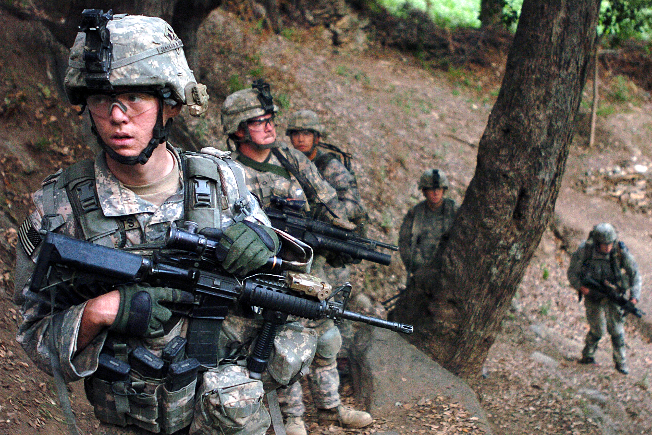 U.S. Army Sgt. Matthew Roberts and fellow soldiers patrol the Korengal valley during the early morning hours in Kunar province, Afghanistan, Aug. 13, 2009. Roberts is assigned to the 4th Infantry Division's Company B, 2nd Battalion, 12th Infantry Regiment, 4th Brigade Combat Team. International Security Assistance Force Service members across Afghanistan have increased operations to ensure safety and security during the nation’s second national election scheduled for late August.